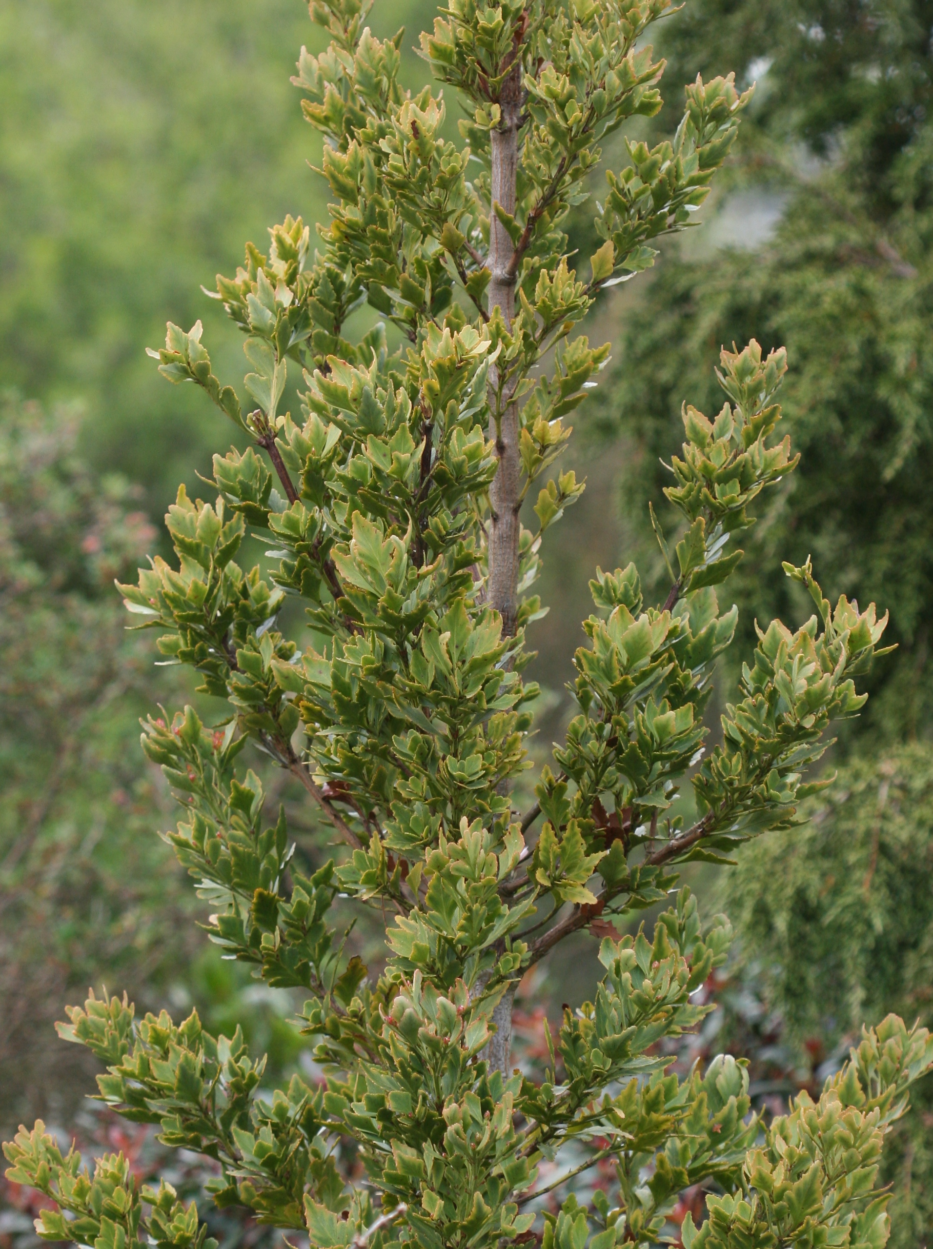 Phyllocladus aspleniifolius Edinburgh Botanic Garden